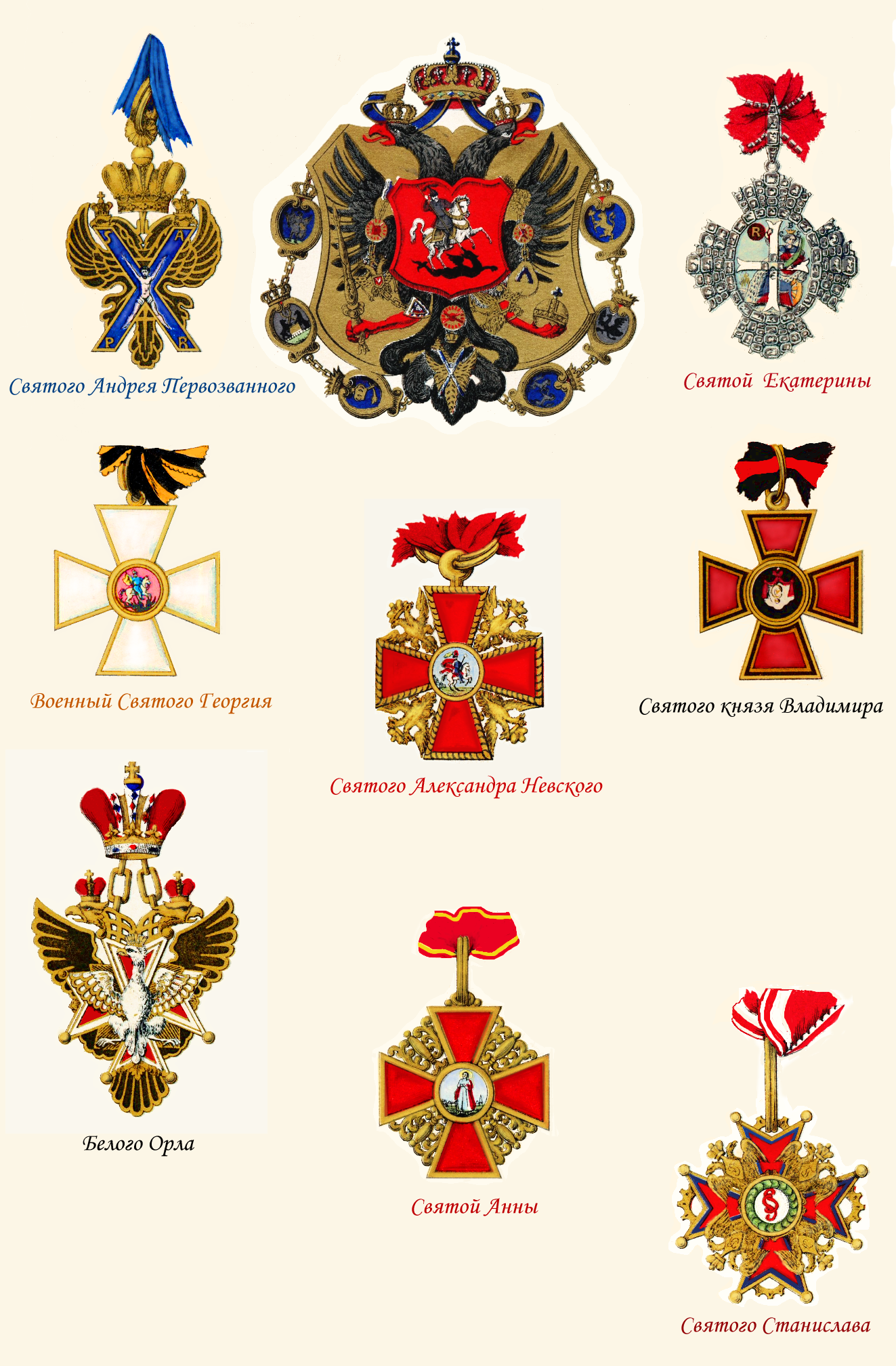 Badges to Orders of Russian Empire (1700-1917). Orders are lined up according to their seniority.